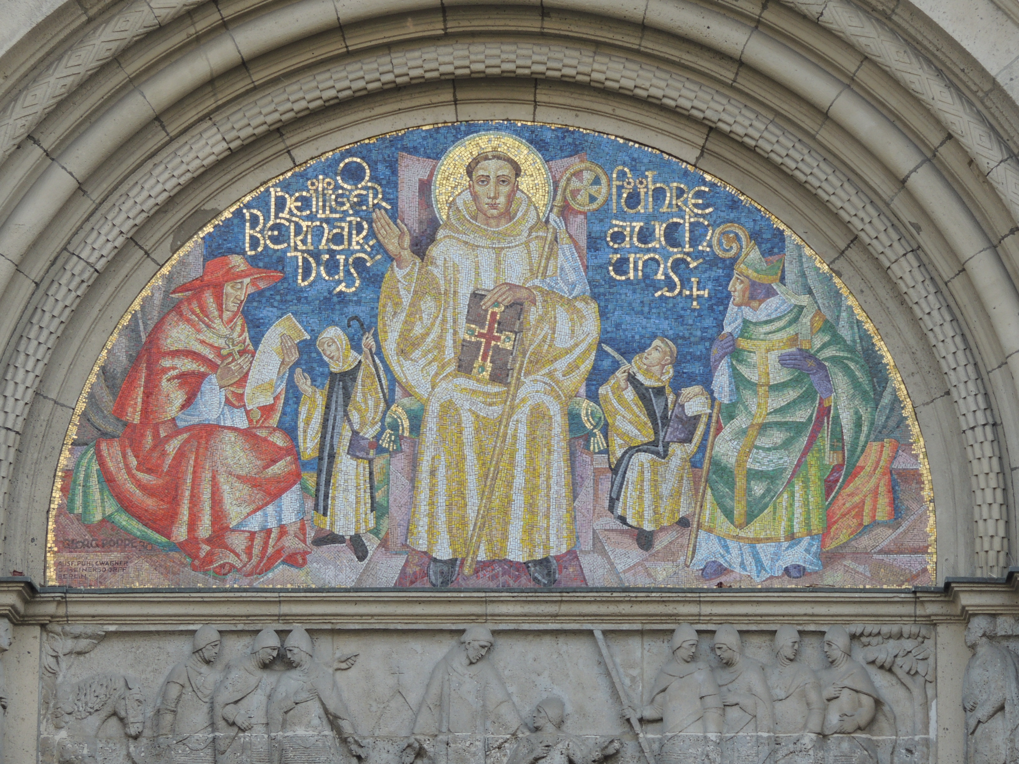 Mosaic above the main entrance of the St. Bernhard church northern front in Frankfurt am Main-Nordend, in April 2014